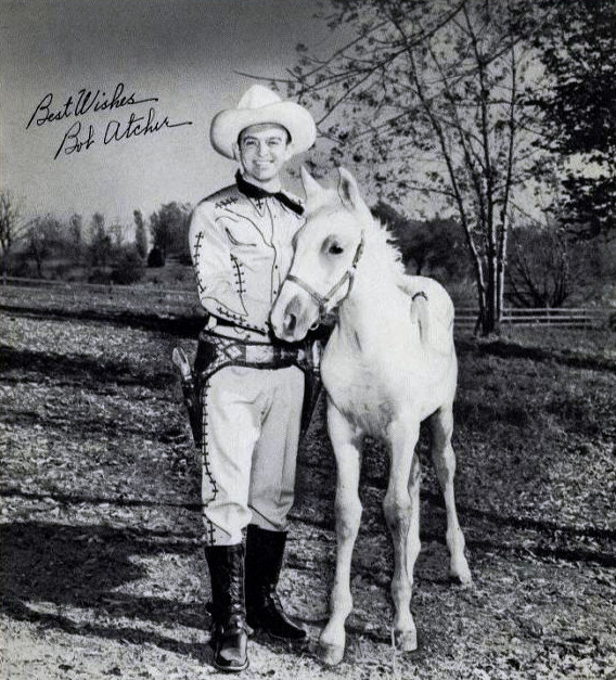 Promotional photo of musician Bob Atcher. Atcher was part of many local (Chicago) and national radio and television programs. He was also the mayor of the Chicago suburb of Schaumburg, Illinois from 1959 to 1979. Atcher hosted some children's television programs in the late 1940s to early 1950s. The photo depicts him as the host of "Meadow Gold Ranch", which was named for its sponsor, an area dairy. The program aired on WENR-TV, which became WBKB-TV in 1953, and WLS-TV in 1968. The signature on the photo appears to be a facsimile and it seems to have been distributed to publicize the show's contest.